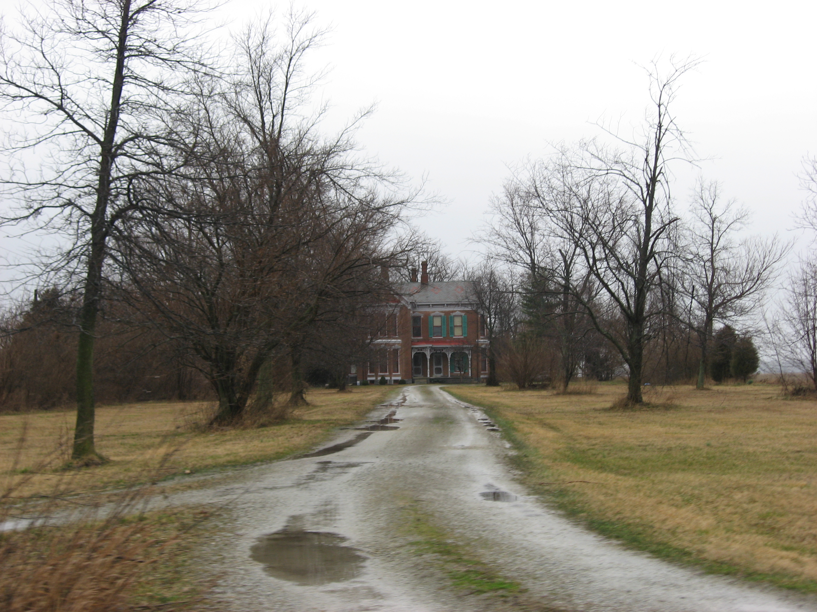 Farmhouse at the Joseph Shafer Farm, located along Flinn Road northeast of Brookville in Springfield Township, Franklin County, Indiana, United States. Built in 1883, the farmhouse and other buildings are listed together on the National Register of Historic Places.